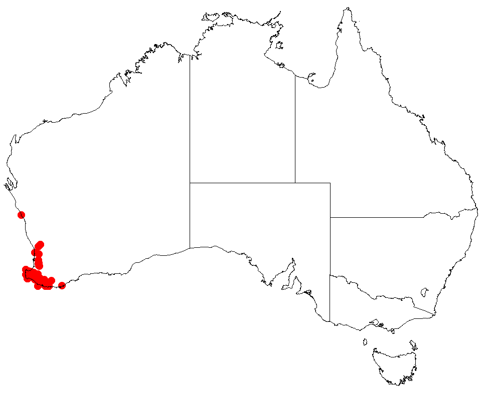 Hakea lasianthoides Occurrence data downloaded from Australasian Virtual Herbarium on 22 November 2018 using